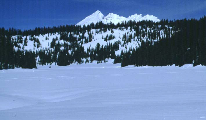 Winter view across Todd Lake to Broken Top, Deschutes National Forest, Oregon.